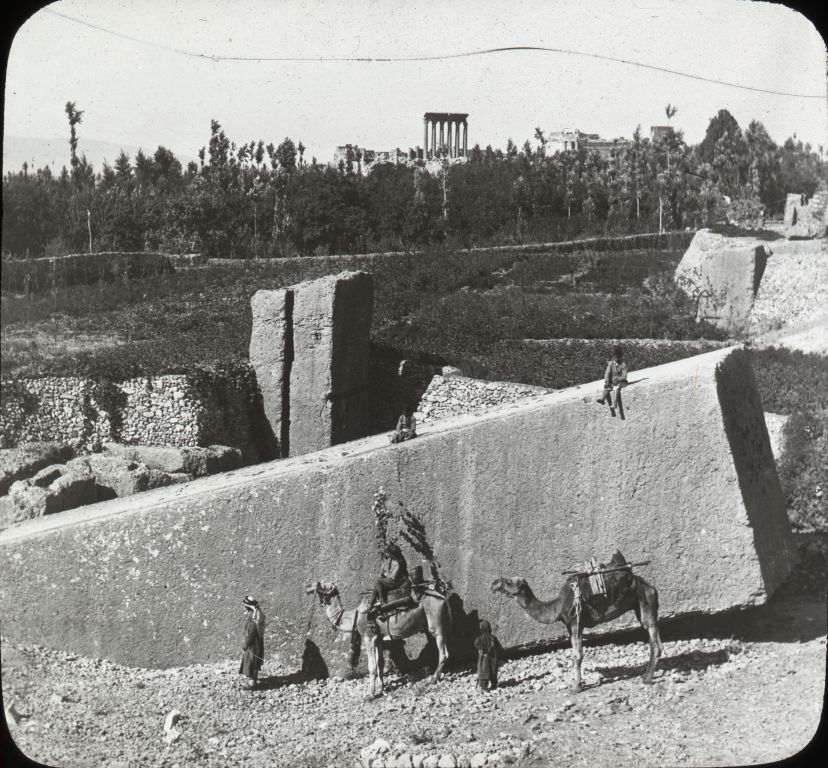 Image Title: Colossal Hewn Block, Ancient Quarries Baalbek Image Description from historic lecture booklet: "Approaching Baalbek from Damascus or the south, one comes first to the quarries of Baalbek. The colossal block is 71 feet long, 14 feet high, 13 feet wide, contains about 13,500 cubic feet, and would probably weigh, 1,500 tons. Men on top of it look like little dolls, while the people and camels below seem as mere toys. The block rests on a narrow ridge of rock running down the center, each side underneath being cut away preparatory to moving. All around in this immense quarry are such sights as you may see beyond this block-stone partially prepared for removal. The temple built of the stones of this quarry stands in ruins in the distance. The six columns of the great temple rise prominently and on this side of them, 20 feet from the ground, are three large stones in the wall similar to the one here in the quarry, each 63 feet long, 13 feet wide, 13 feet high, weighing probably 1,000 tons each. One of the unexplained wonders connected with the famous ruins of Ballbek is how the gigantic stones were transported and placed in position on the wall so high above the ground." Original Format: Lantern slides Original Collection: Visual Instruction Department Lantern Slides Item Number: P217:set 010 046 Restrictions: Permission to use must be obtained from the OSU Archives. Click here to view The Best of the Archives. Click here to view Oregon State University's other digital collections. We're happy for you to share this digital image within the spirit of The Commons; however, certain restrictions on high quality reproductions of the original physical version may apply. To read more about what “no known restrictions” means, please visit the OSU Archives website.